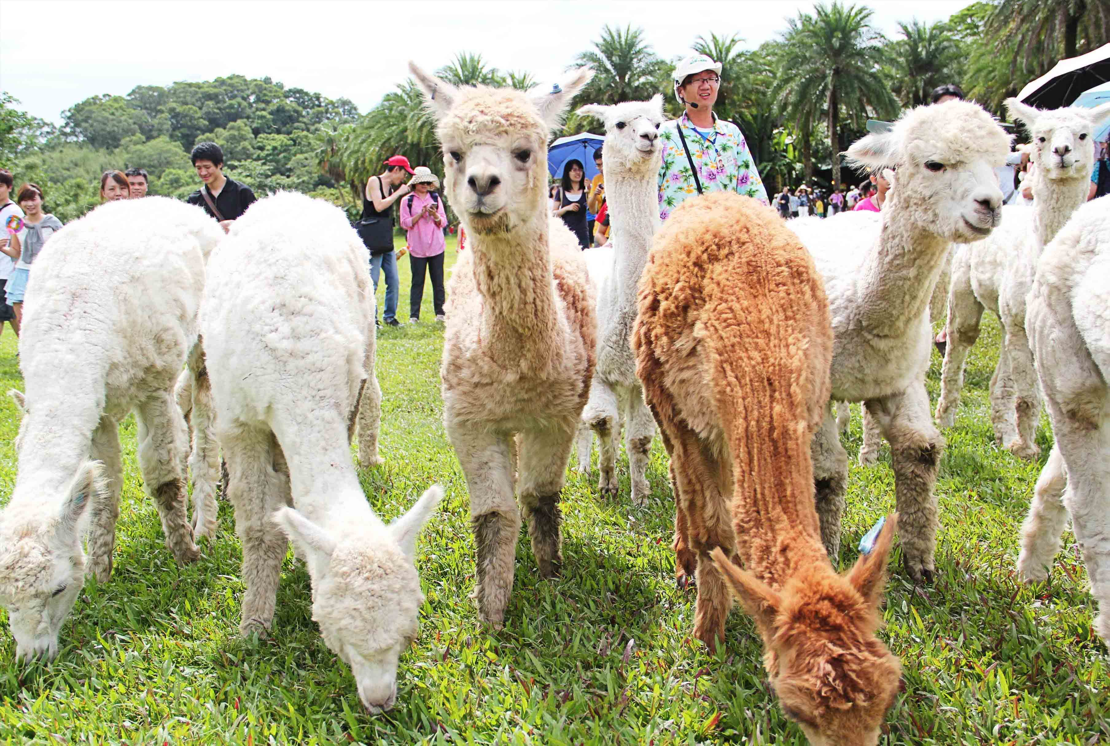 a very cute group of Alpacas walking, playing, and eating fresh grass in Green World Ecological Farm